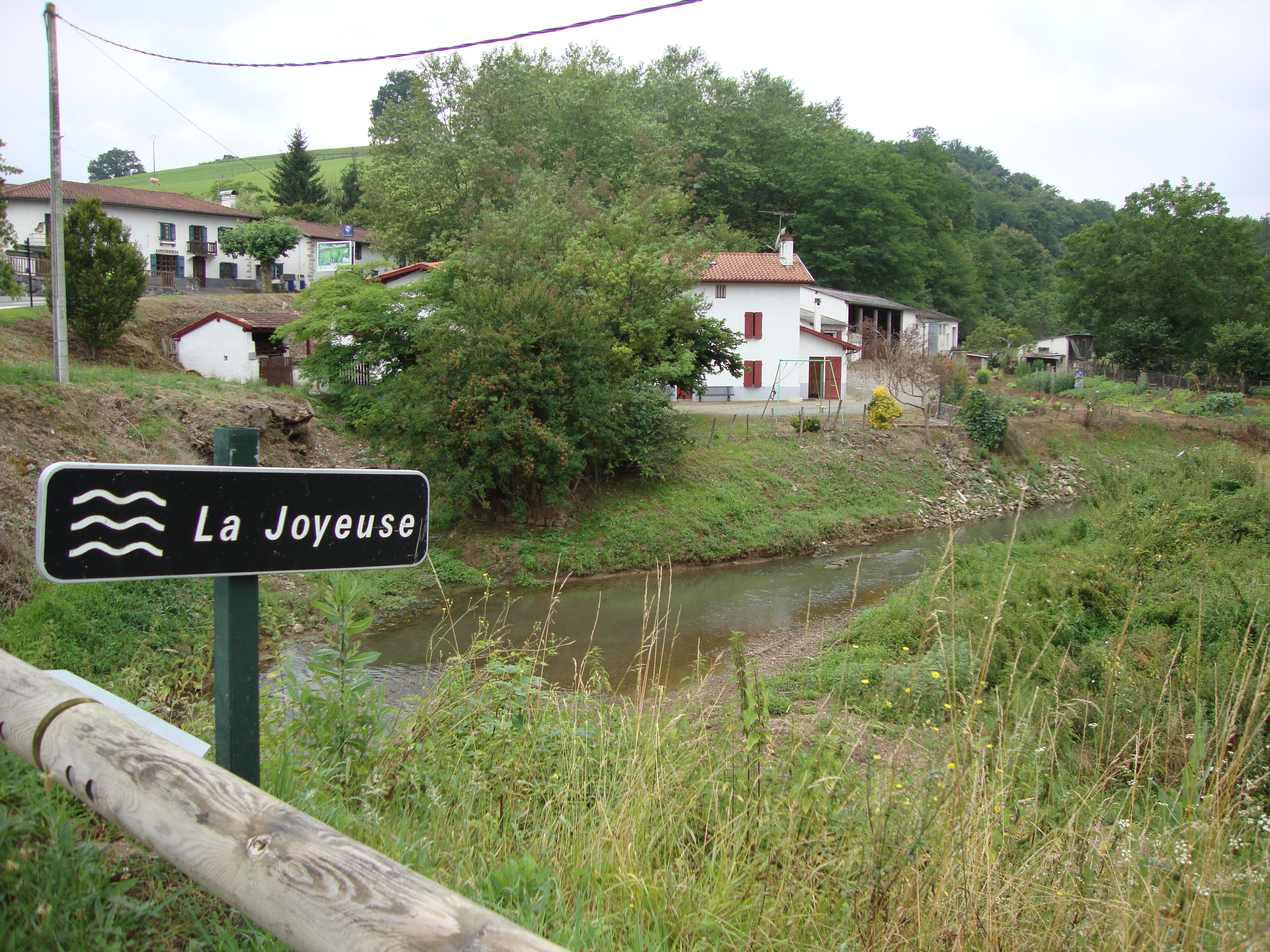 Luisenialdea (Lantabat, Pyr-Atl, Fr) Joyeuse river and the hamlet.